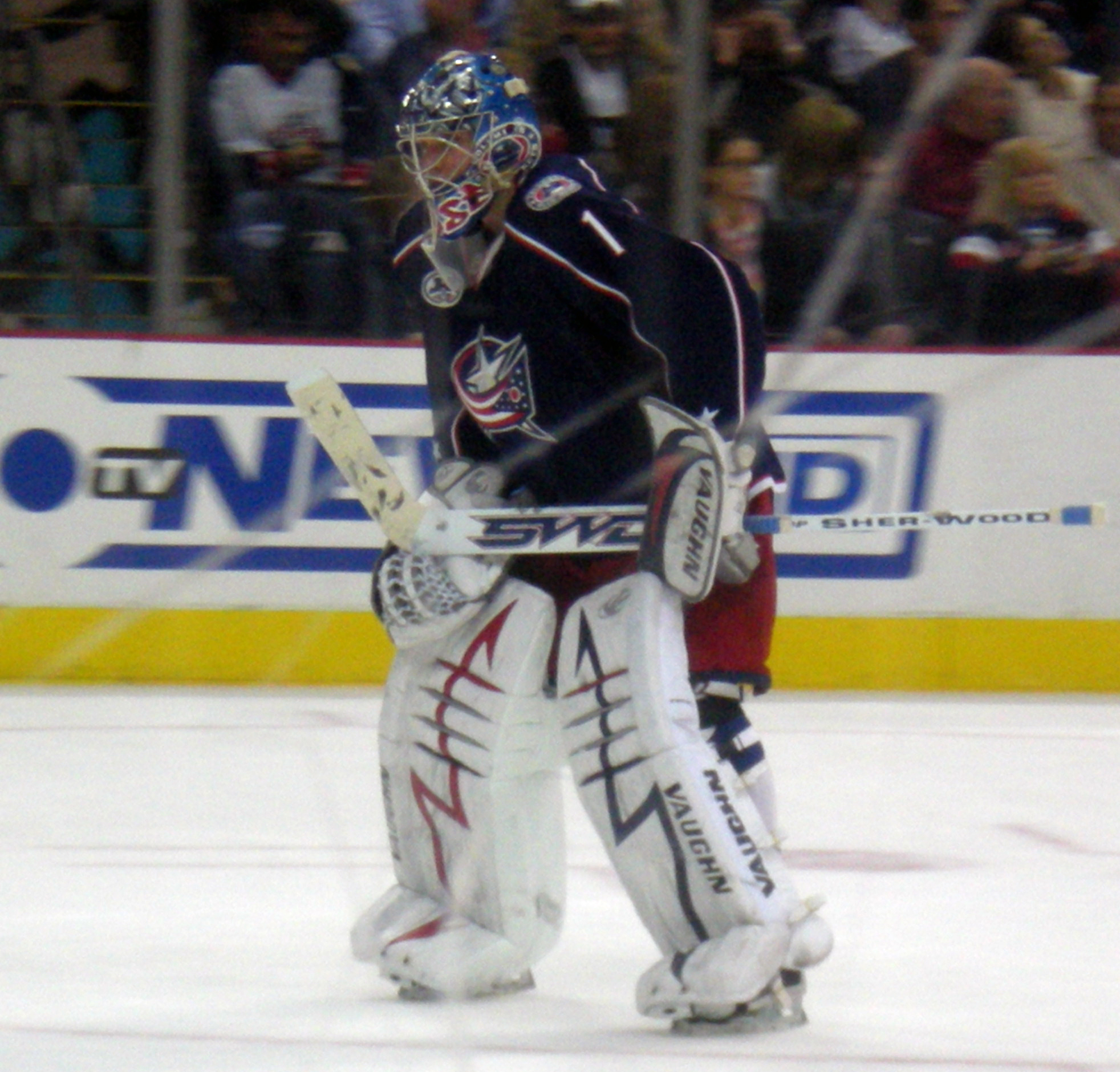 Steve Mason returning to the net after a timeout on February 18